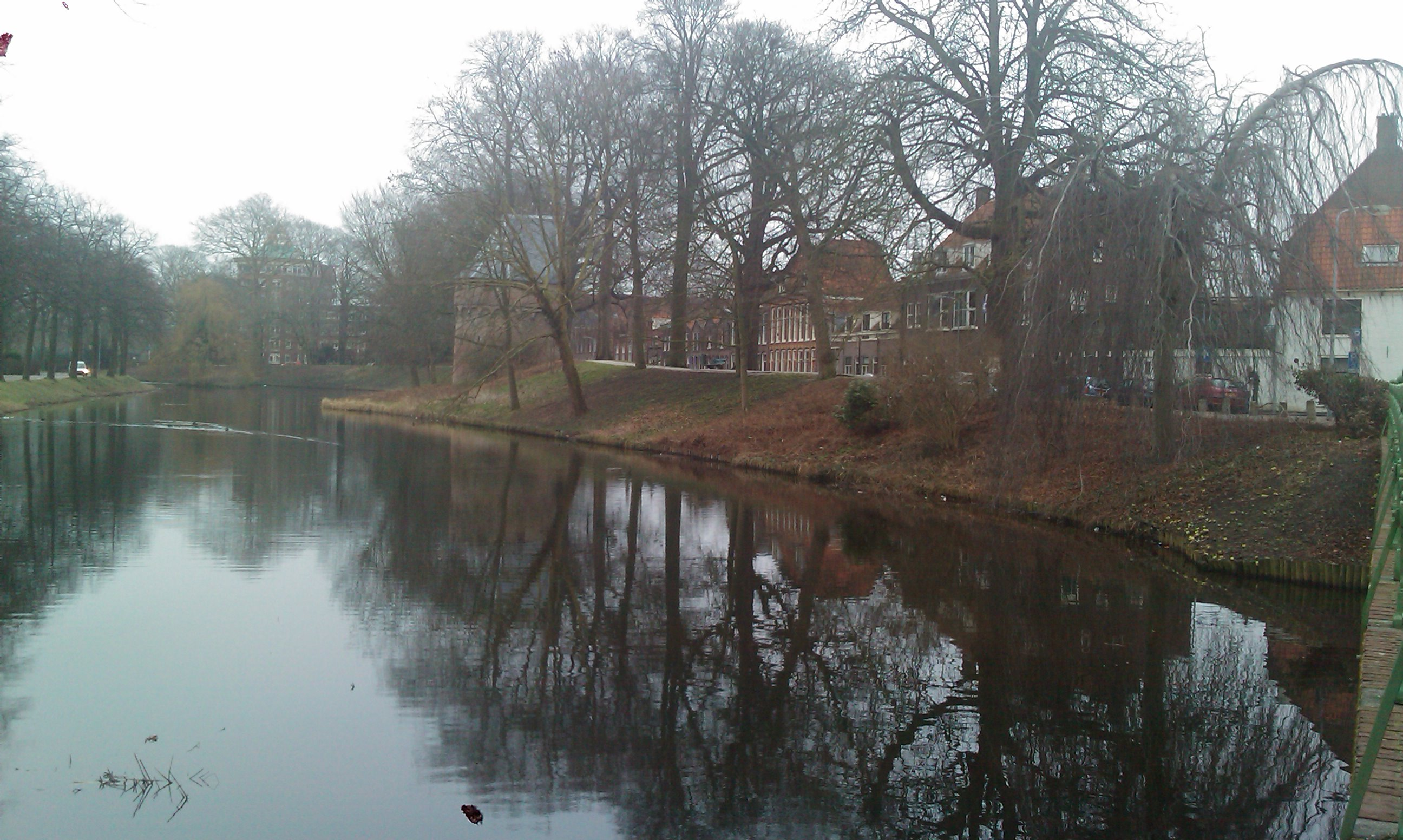 Canal and rampant at the northern side of the old city. Runst from the Noorderstraat past the Oosterpoort, within the rampant are the Oosterpoort and the Mariatoren.